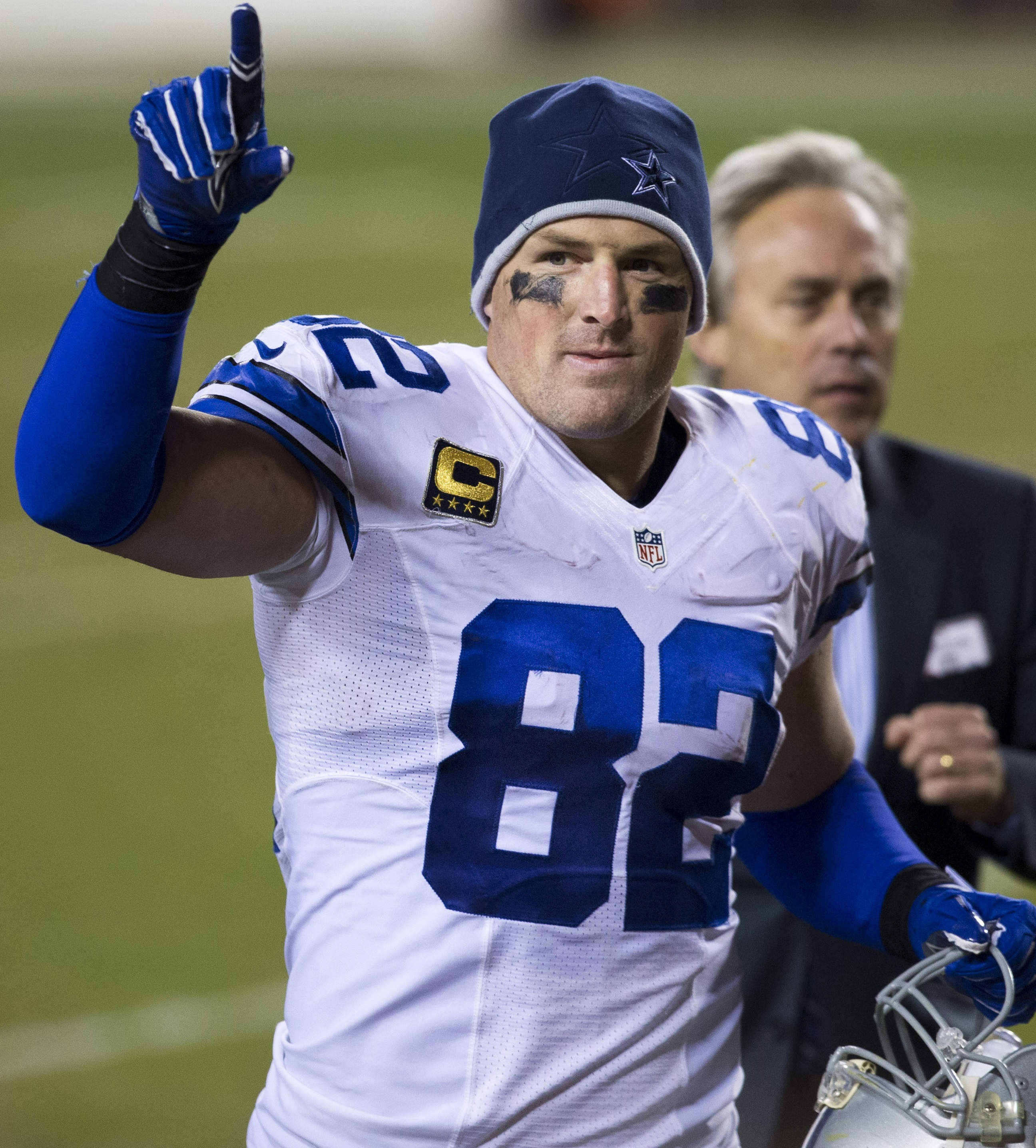 Cowboys at Redskins 12/7/15